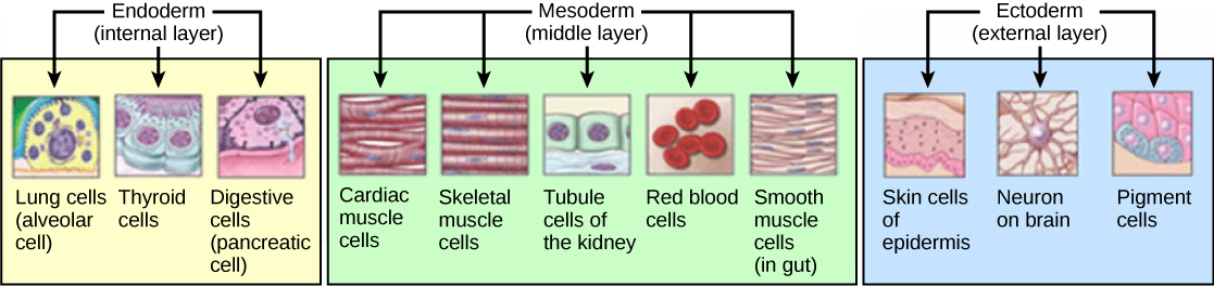 Based off: File:Germ_layers.png